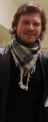 Kıvanç Tatlıtuğ is invited to schools.